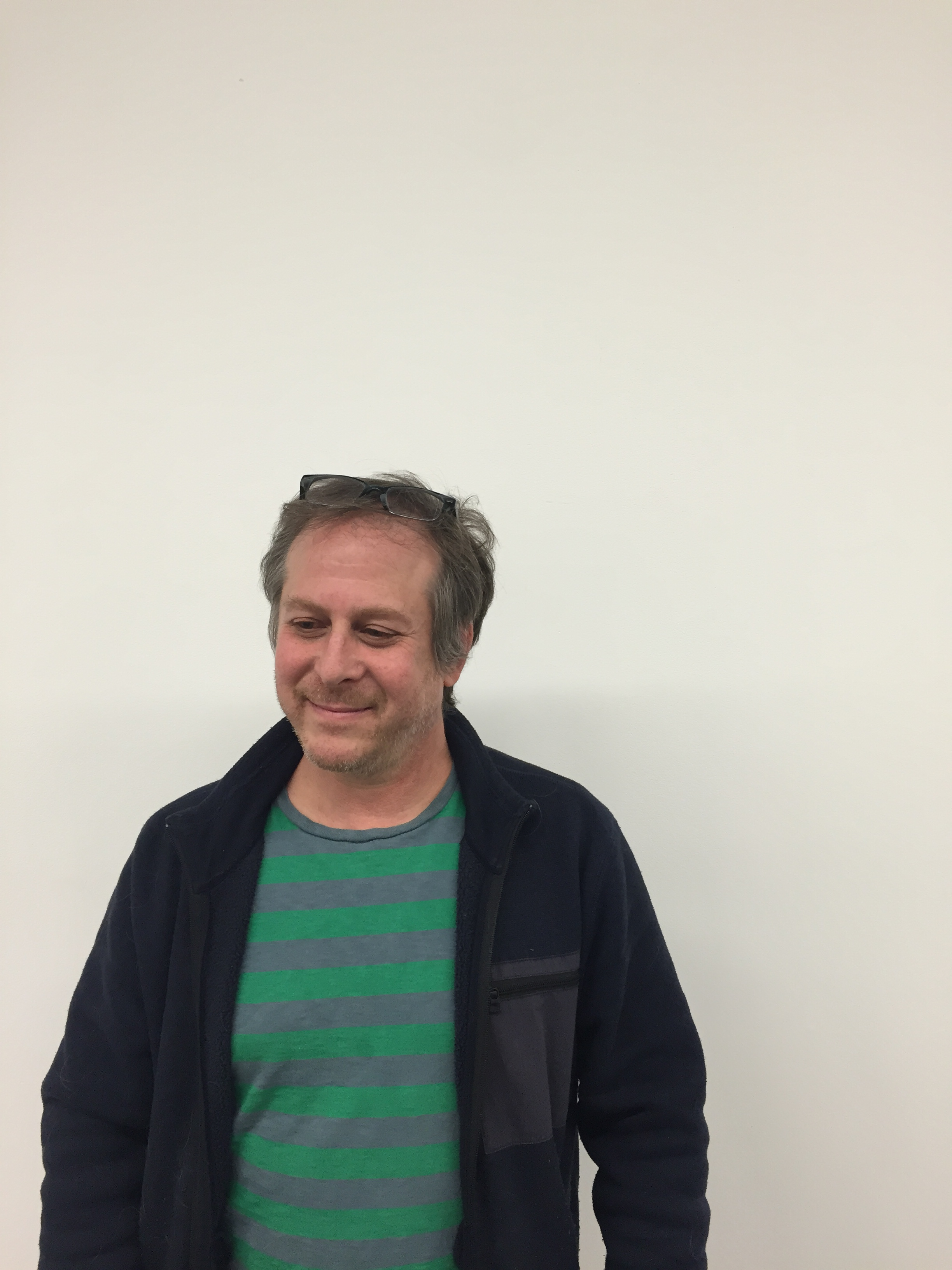 Tom Friedman in his Studio